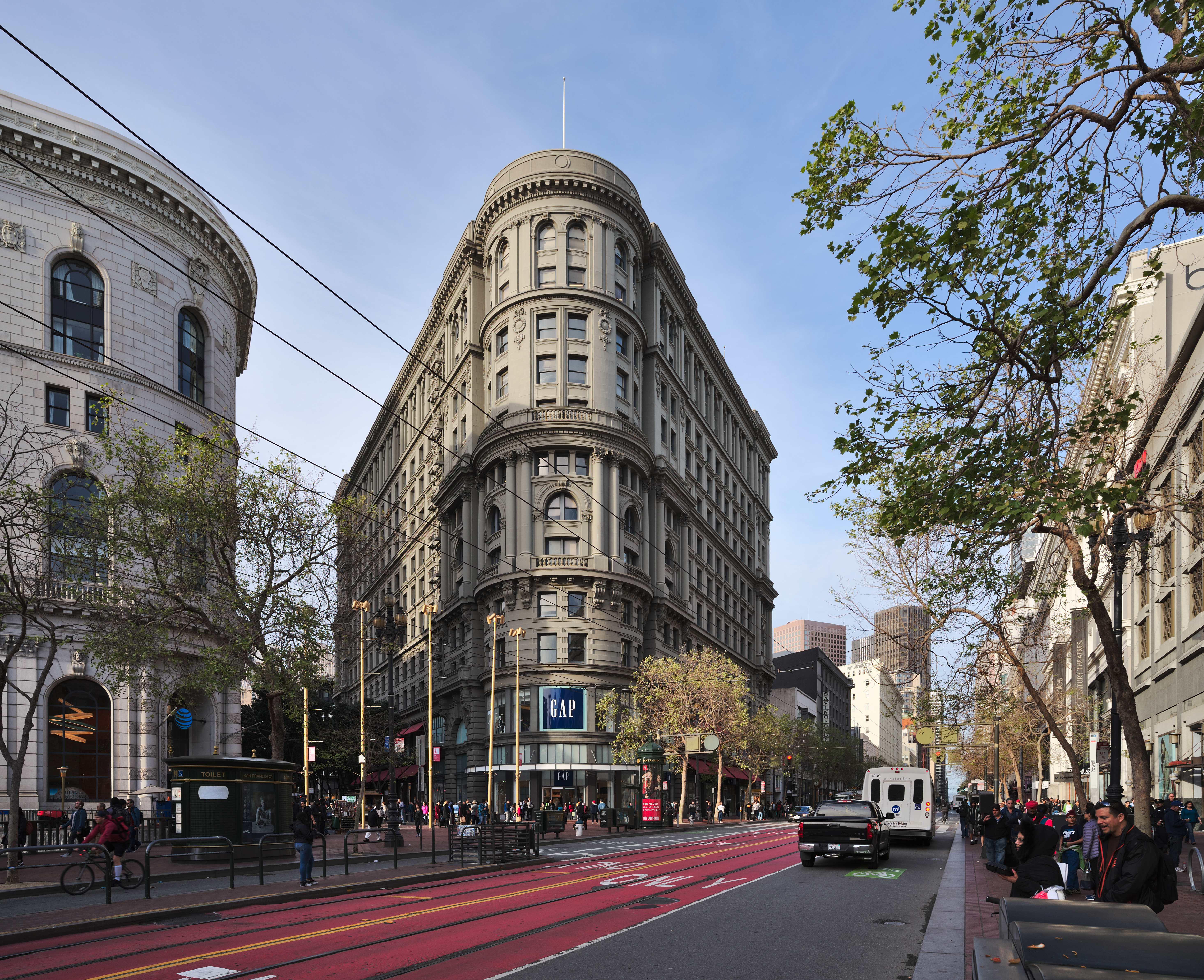 The Flood Building is a 12 storey flatiron in San Francisco.